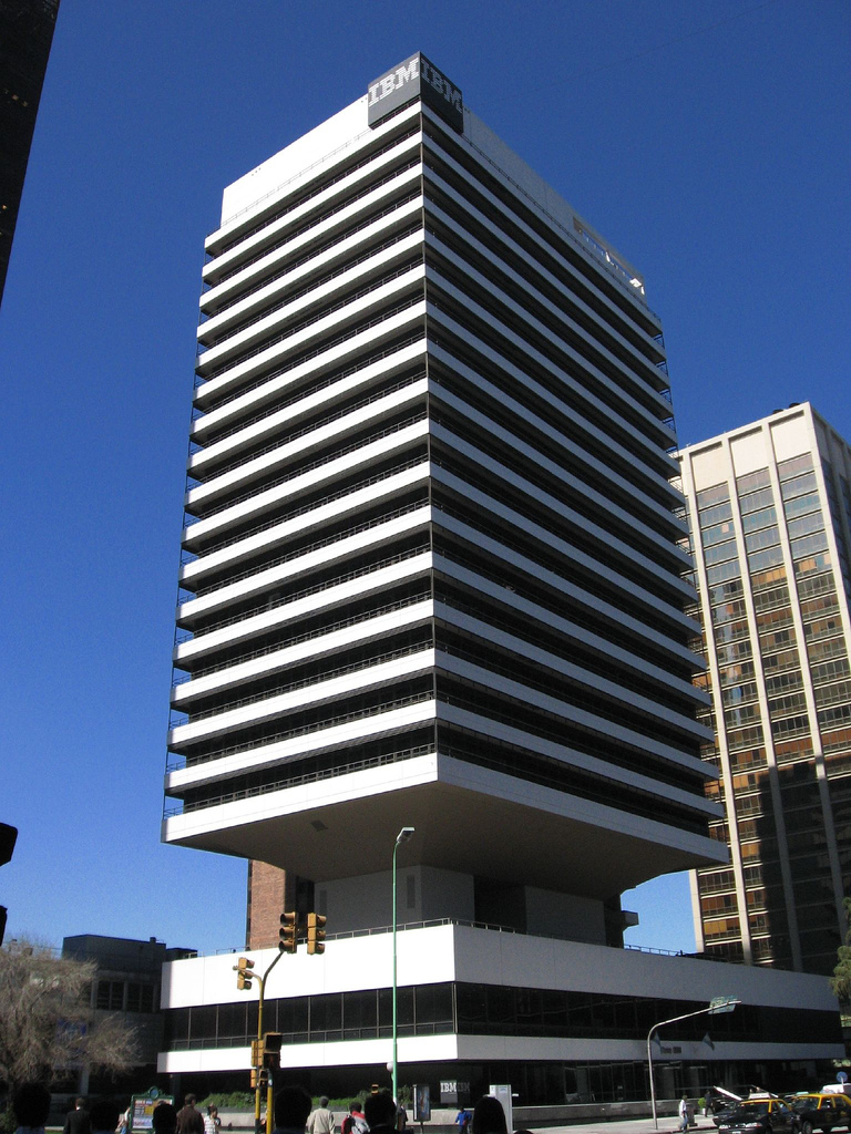 IBM Tower in Buenos Aires, Argentina